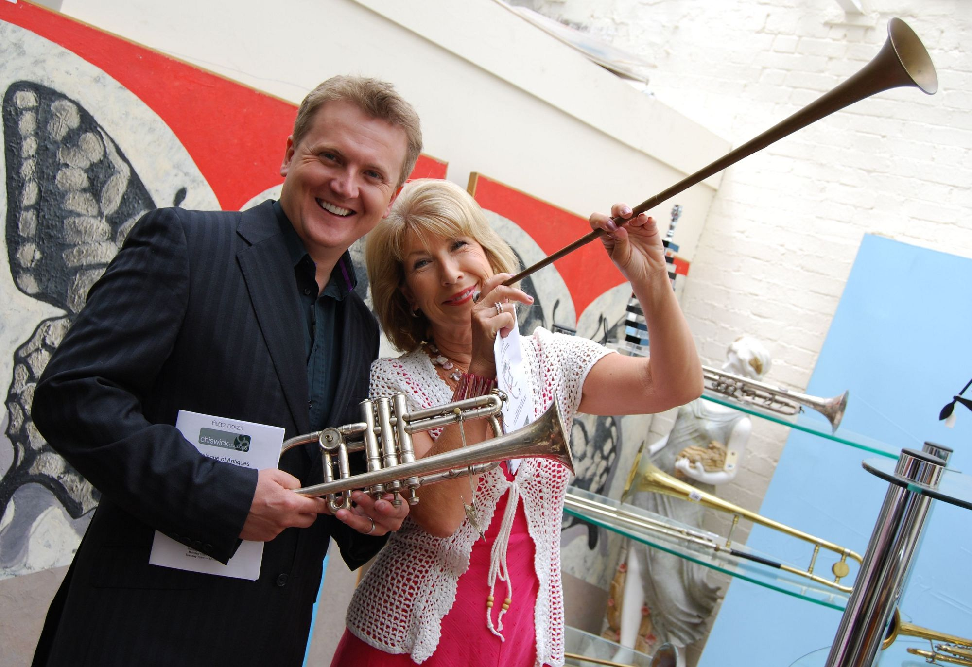 Cash in the Attic hosts Aled Jones and Jennie Bond.